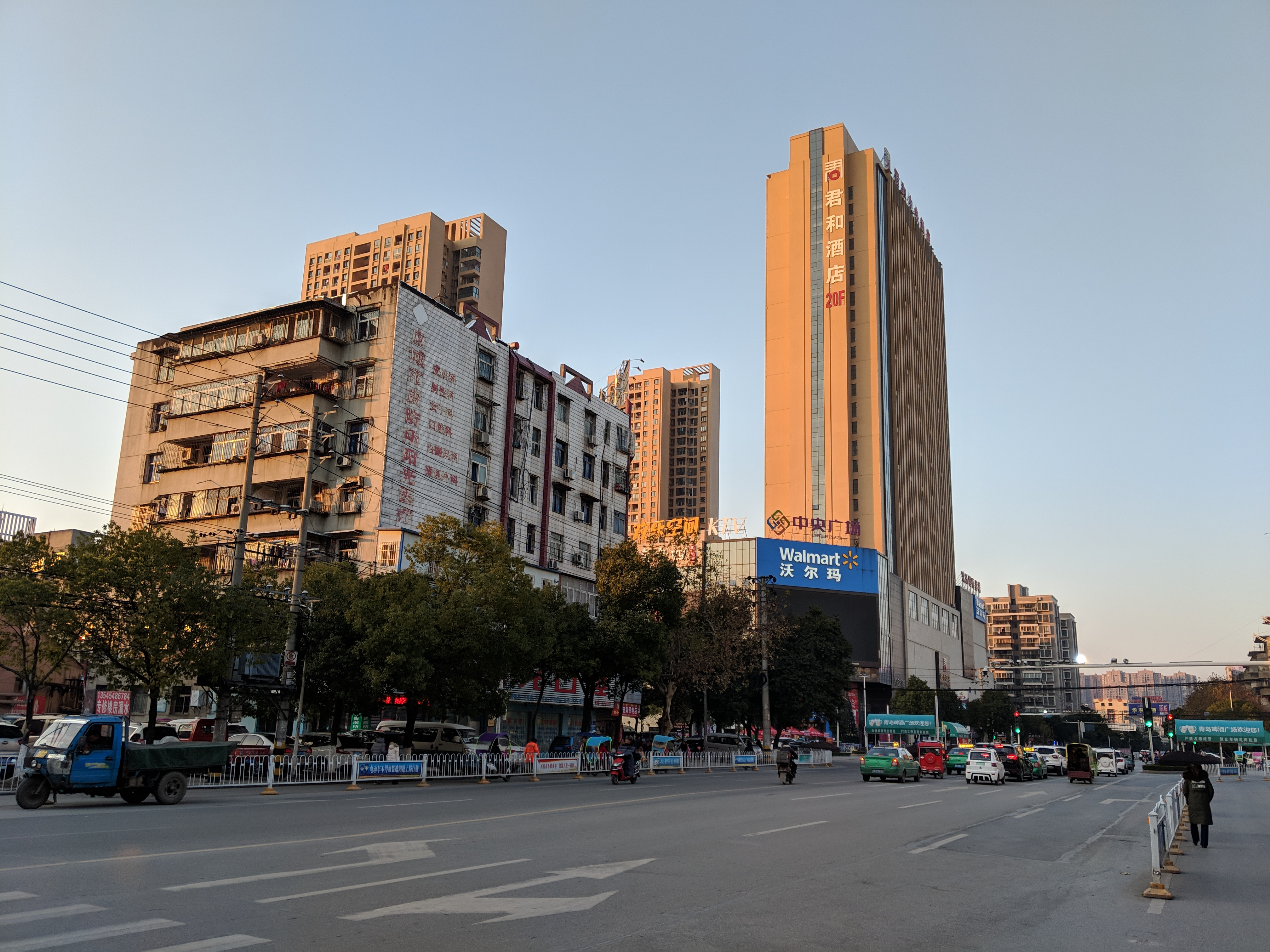 Near the center of Yingcheng (应城市), taken from the east side of 古城大道 a bit south of 蒲阳大道, facing NNW.